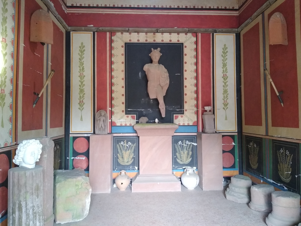 Internal view of reconstruction of Gallo-Roman Sanctuary (Fanum) from Temple District (Temenos) at the Klosterwald by Bierbach an der Blies. Reconstruction is accessible to the public at the Roman Museum at Einöd-Schwarzenacker.